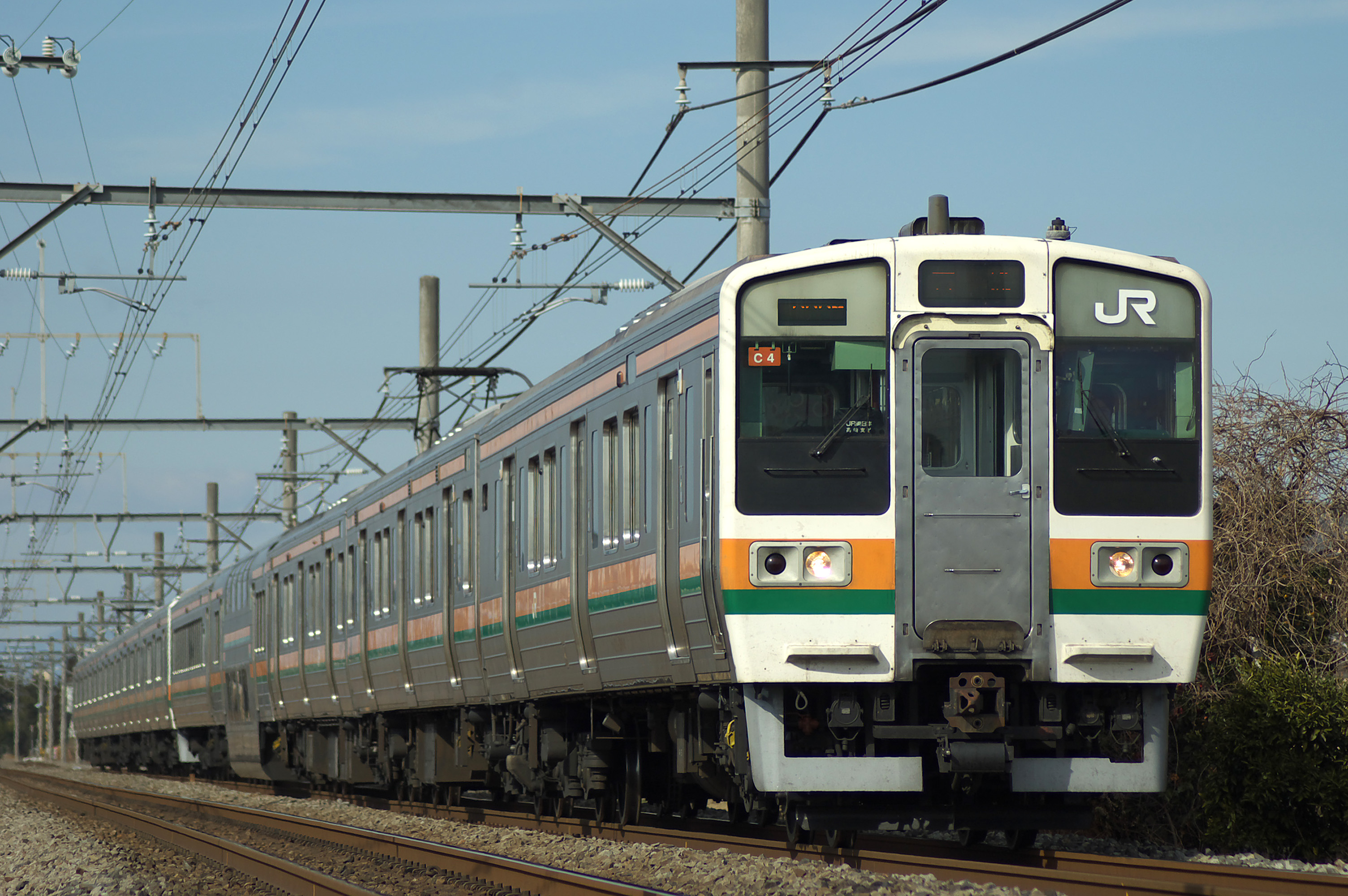 JR East 211-3000 series electric car with green cars, Takasaki-line. グリーン車を連結した高崎車両センターの211系3000番台(C編成)。